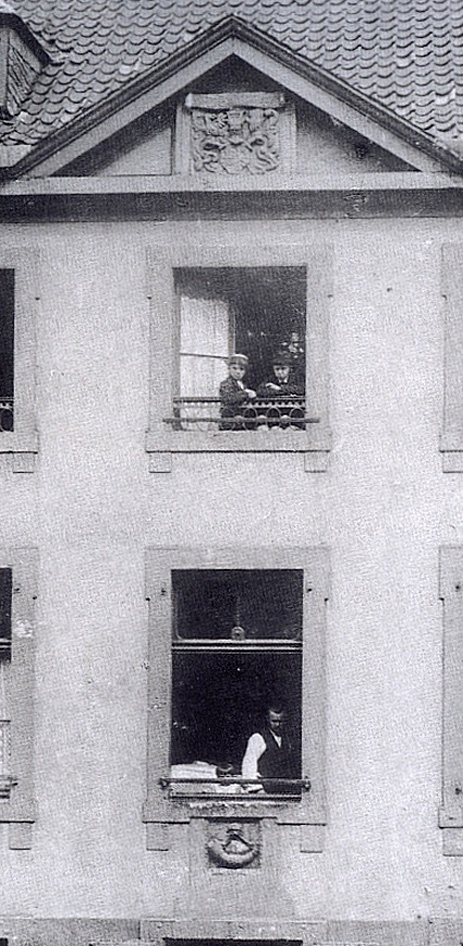 t